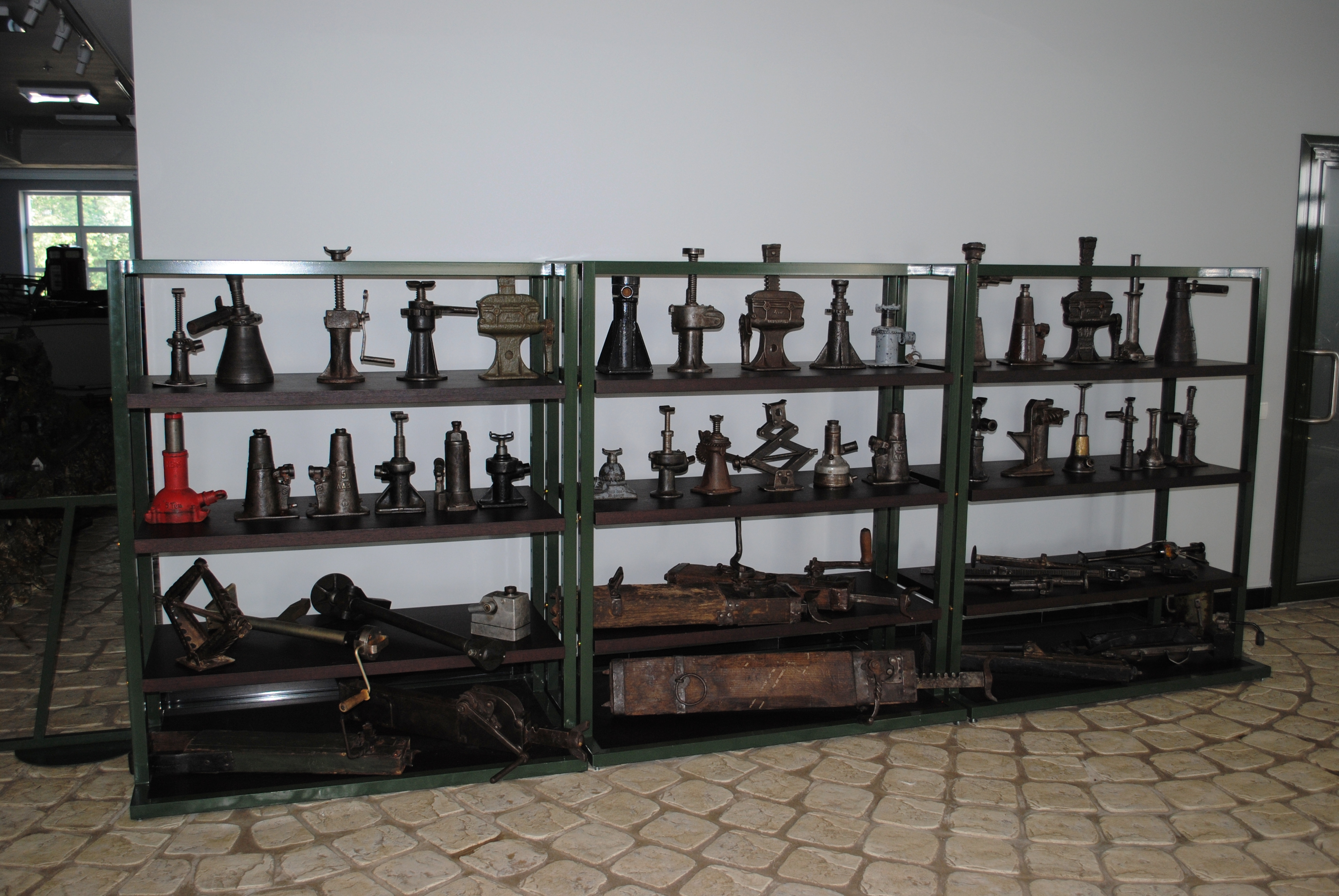 Museum of technique of Vadim Zadorogny